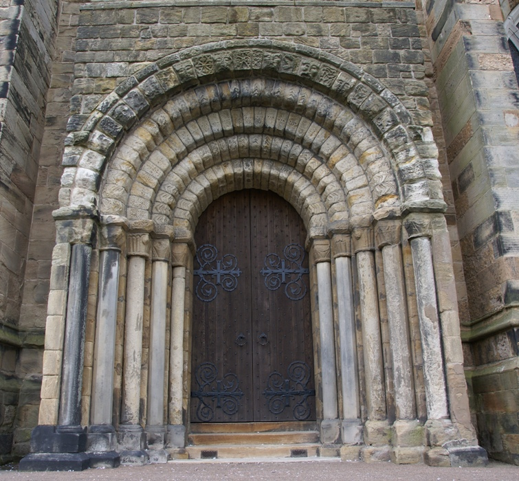 Dunfermline Abbey, Fife, Scotland - west entrance of abbey church